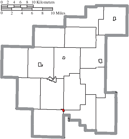 Map of the municipal and township boundaries of Noble County, Ohio, United States, as of the 2000 census, with the location of the village of Dexter City highlighted. Township borders are shown only in unincorporated areas in order to differentiate incorporated and unincorporated areas more clearly.